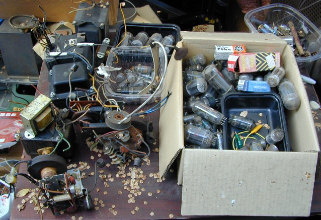 Electronic junk box of KF6PQ Tki hai ehe